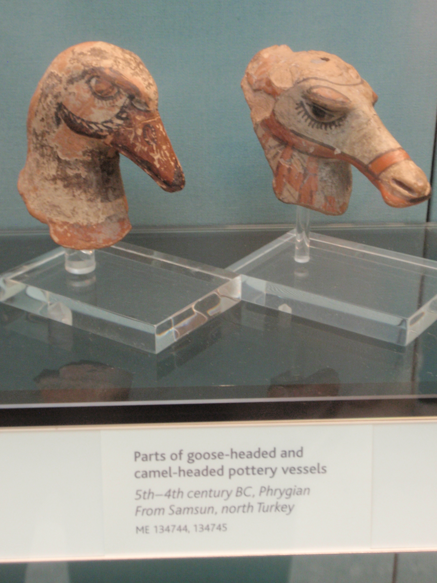 phrygian art 5-4th century-Samsun,North Turkey-British Museum